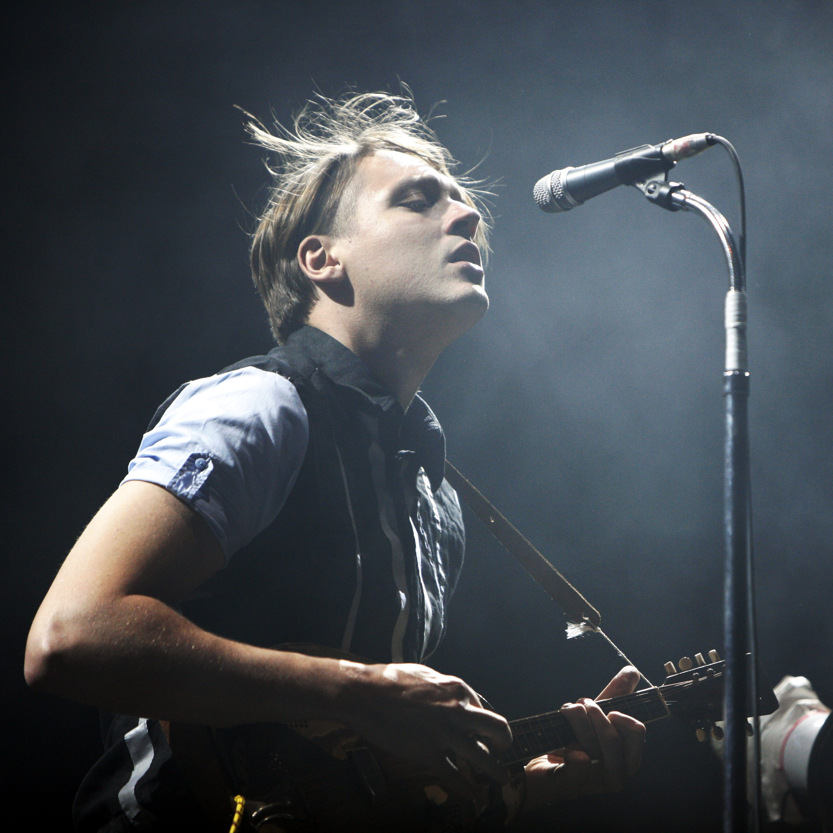 Arcade Fire at the Eurockéennes of 2007